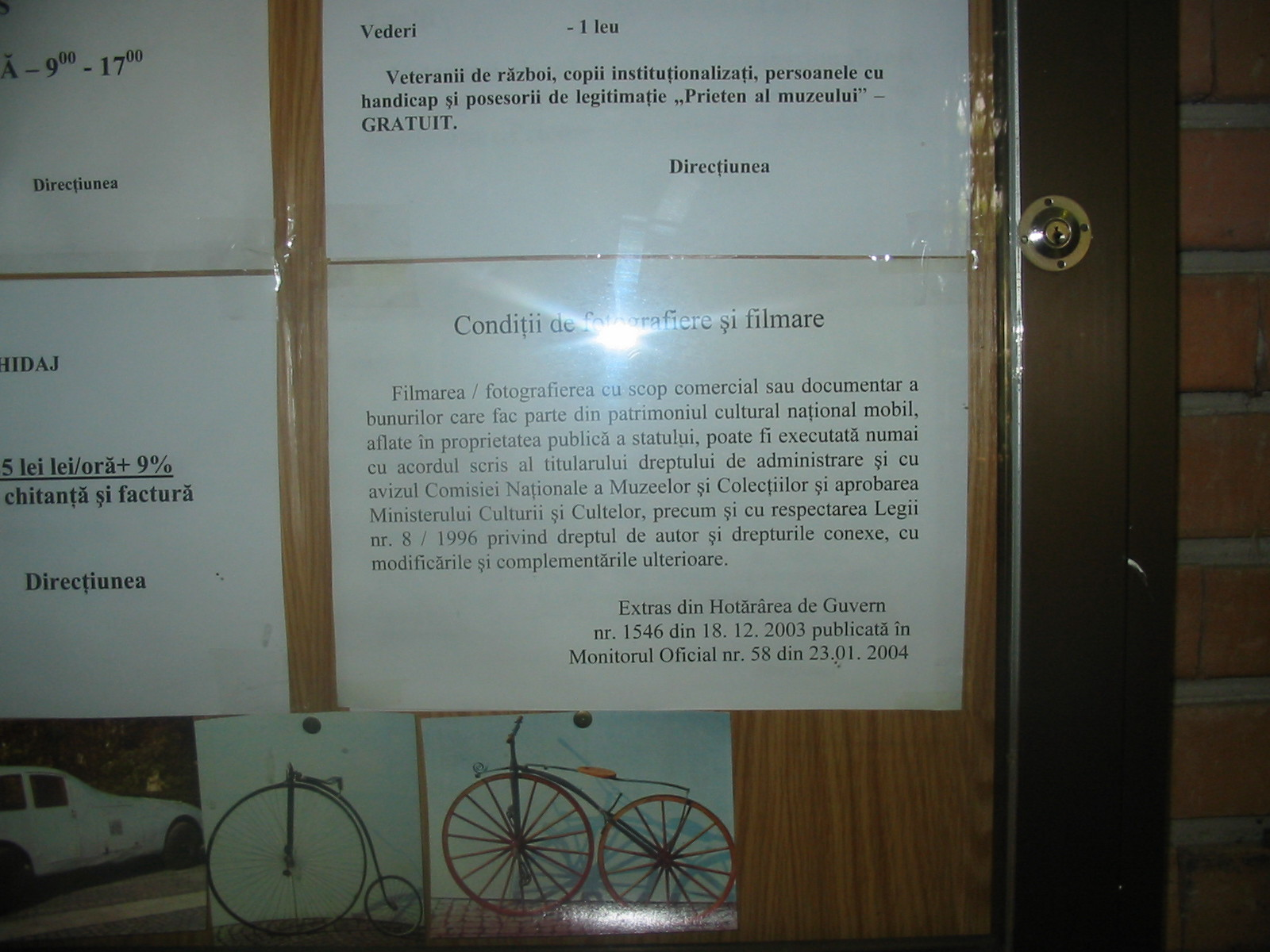 One of rare museums, where a governmental approval is needed to make pictures.